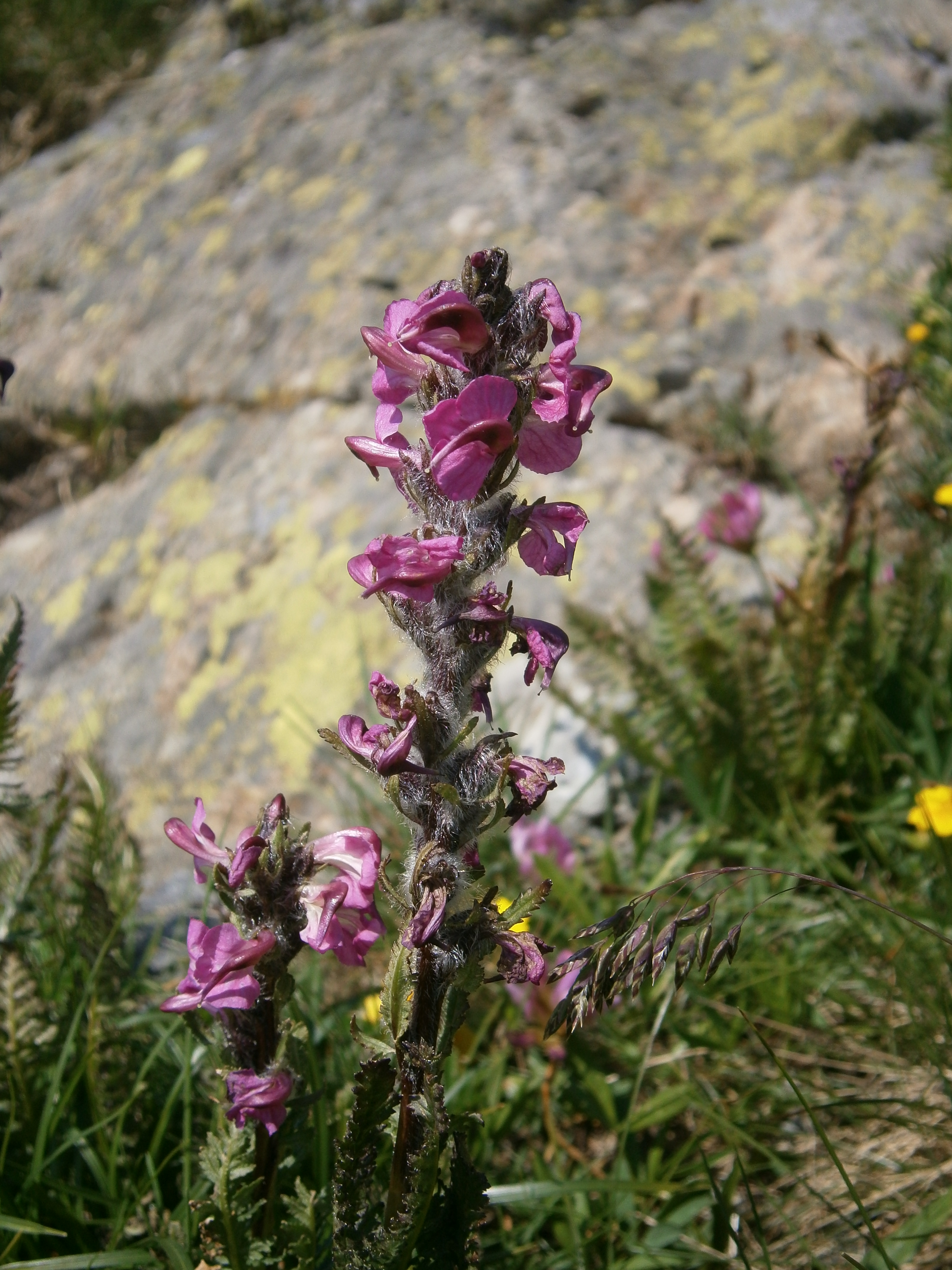 Pedicularis rostratospicata